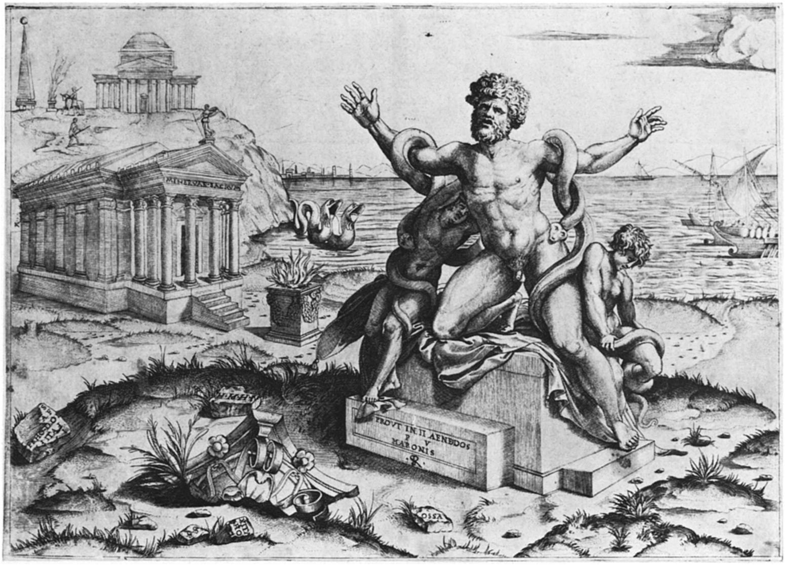 Marco Dente, Death of Laocoön, copper engraving.